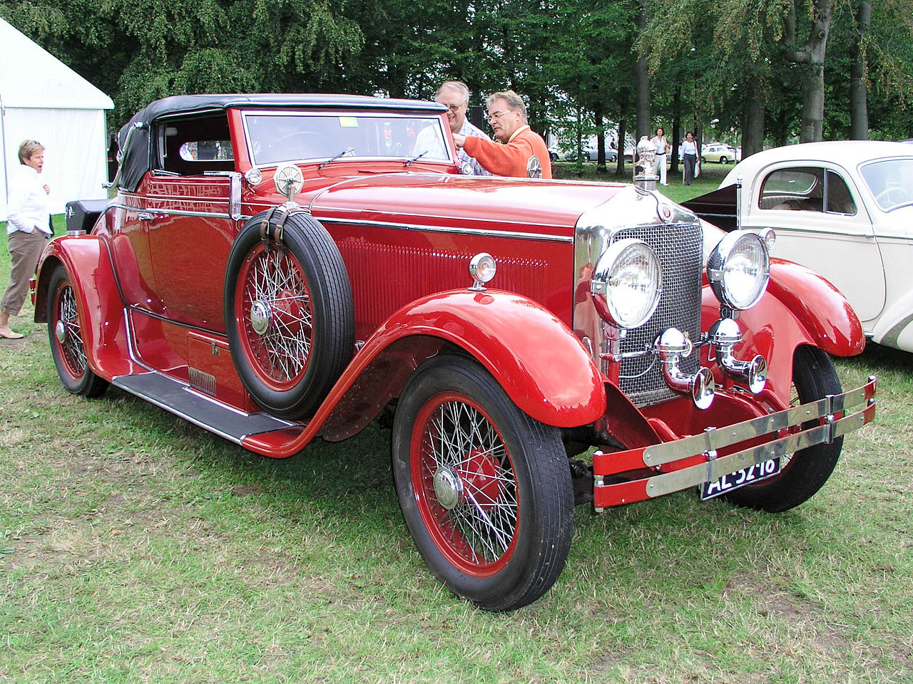 30 HP model powered by a 5355 cc 6-cylinder monobloc engine with sleeve-valves, made in Belgium by Minerva Motors SA; front right-side view